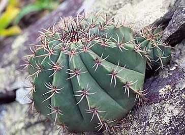 Type locality, plant shortly before produzier cephalium, Bahia, Brasil